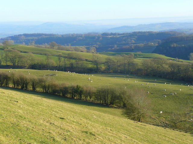 View east from Bron-y-Fedw The winter's afternoon sunlight illuminating the rolling hills near the Wales-England border.